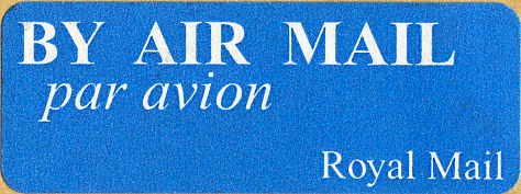 A UK airmail label. Royal mail, 2007.